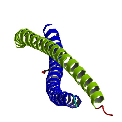 PBB Protein VIM image